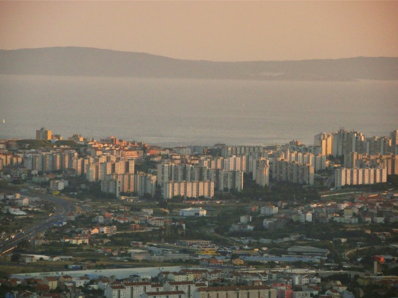 Taken from the Klis fortress